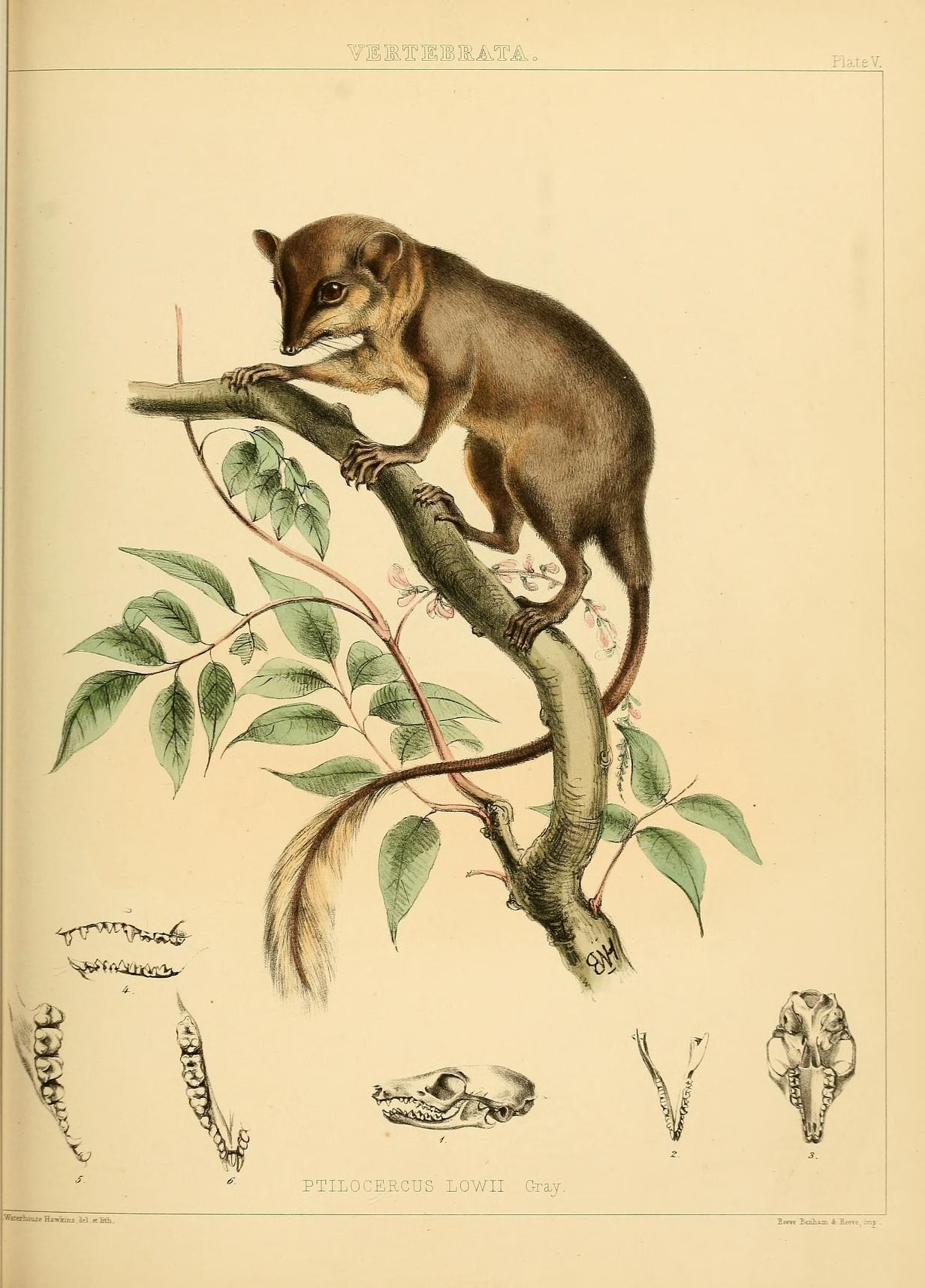 MFl®.tMFAo PTILOCERCUS LOWII Gray. Hasina 3d etBfc. B.ECTC £elihi» I